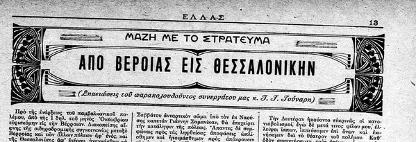 Ellas newspaper